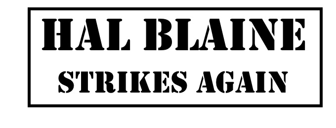 fake "HAL BLAINE STRIKES AGAIN" stamp